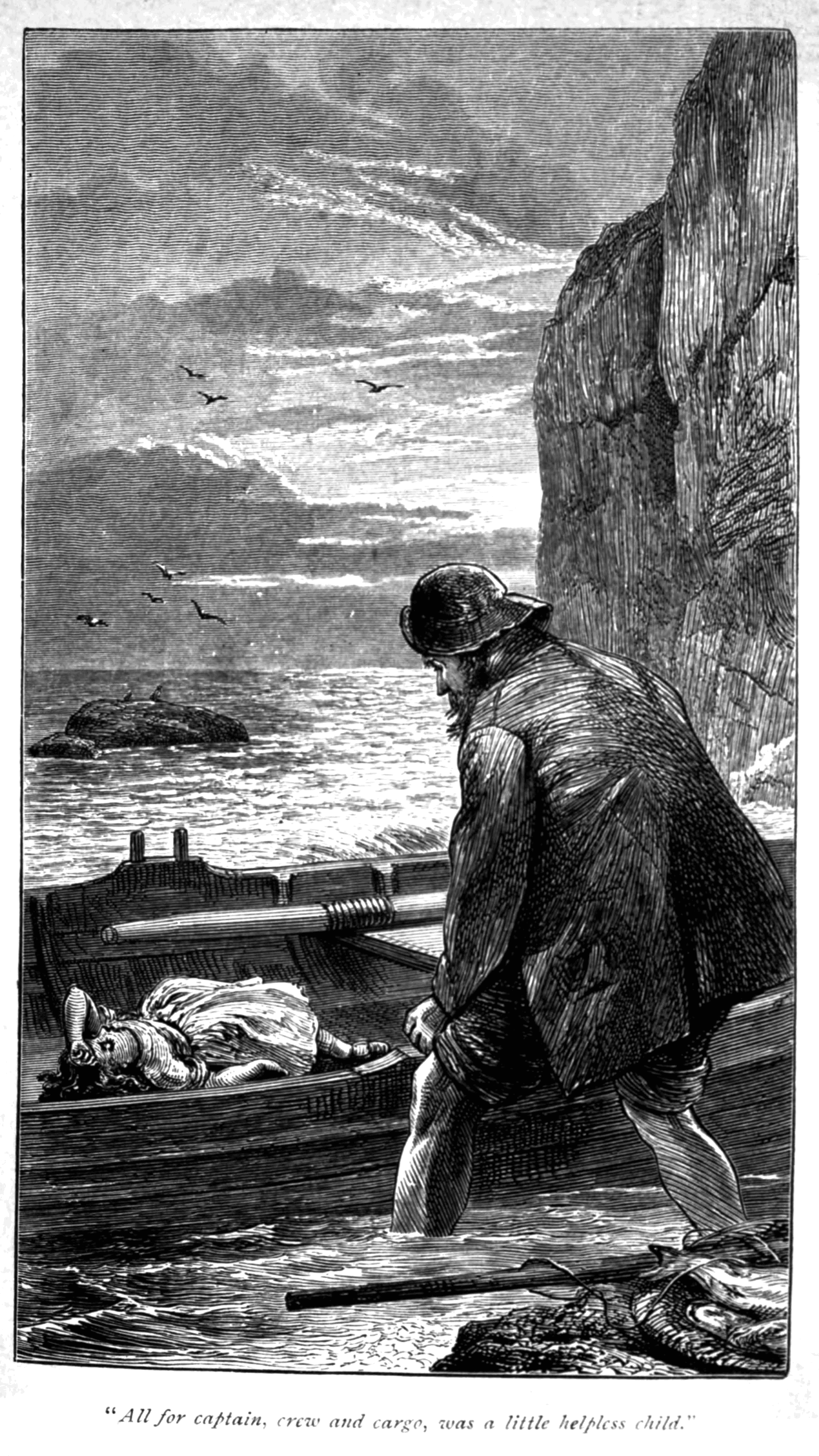 Frontispiece from the novel The Maid of Sker by R. D. Blackmore. The novel was first published in 1872. This frontispiece is from the 1893 edition.